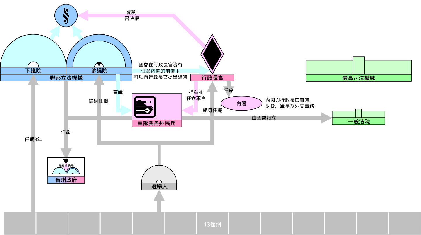 A diagram of the Hamilton Plan presented at the Constitutional Convention in the United States in 1787.